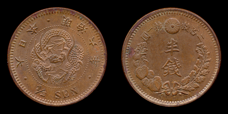 Half-sen-M6